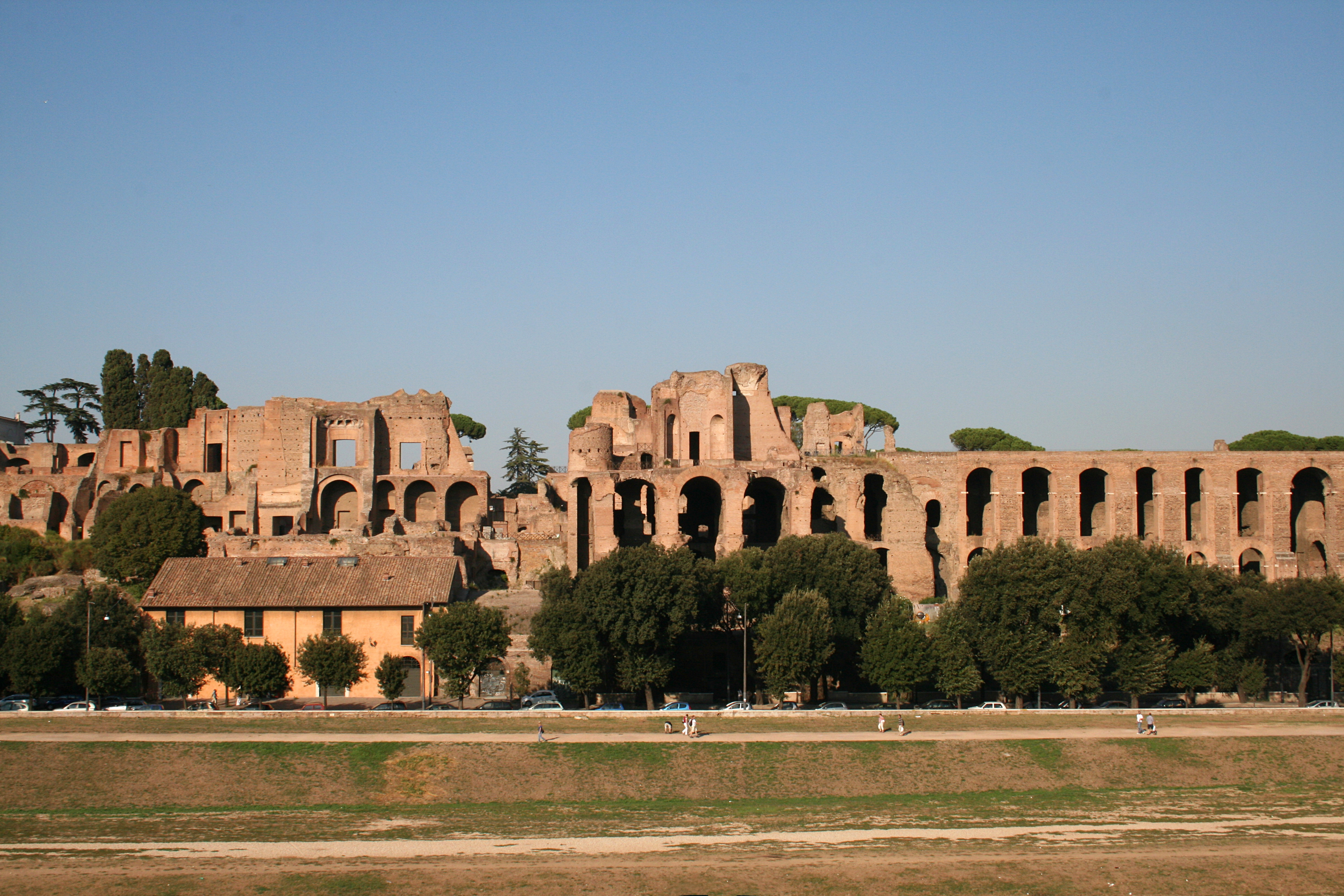 Ruins of the Domus Augustana on Palatine Hill viewed from the Piazalle Ugo La Malfa.